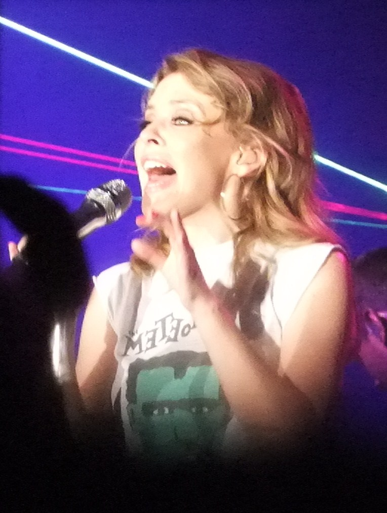 in Manchester on her Anti-Tour